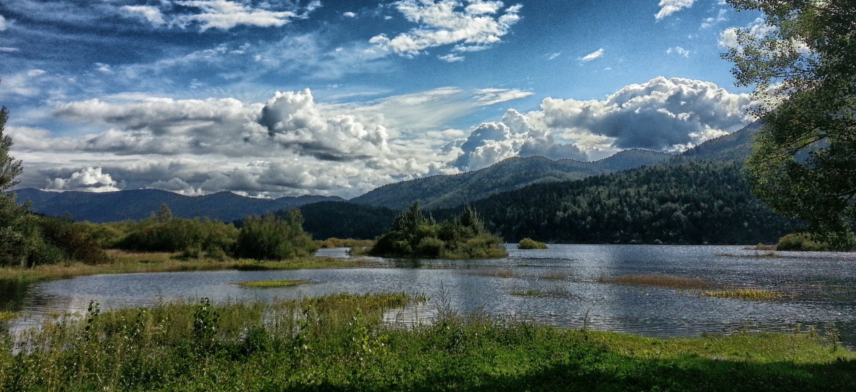 Lake Cerknica, Slovenia, flooded; september 2014